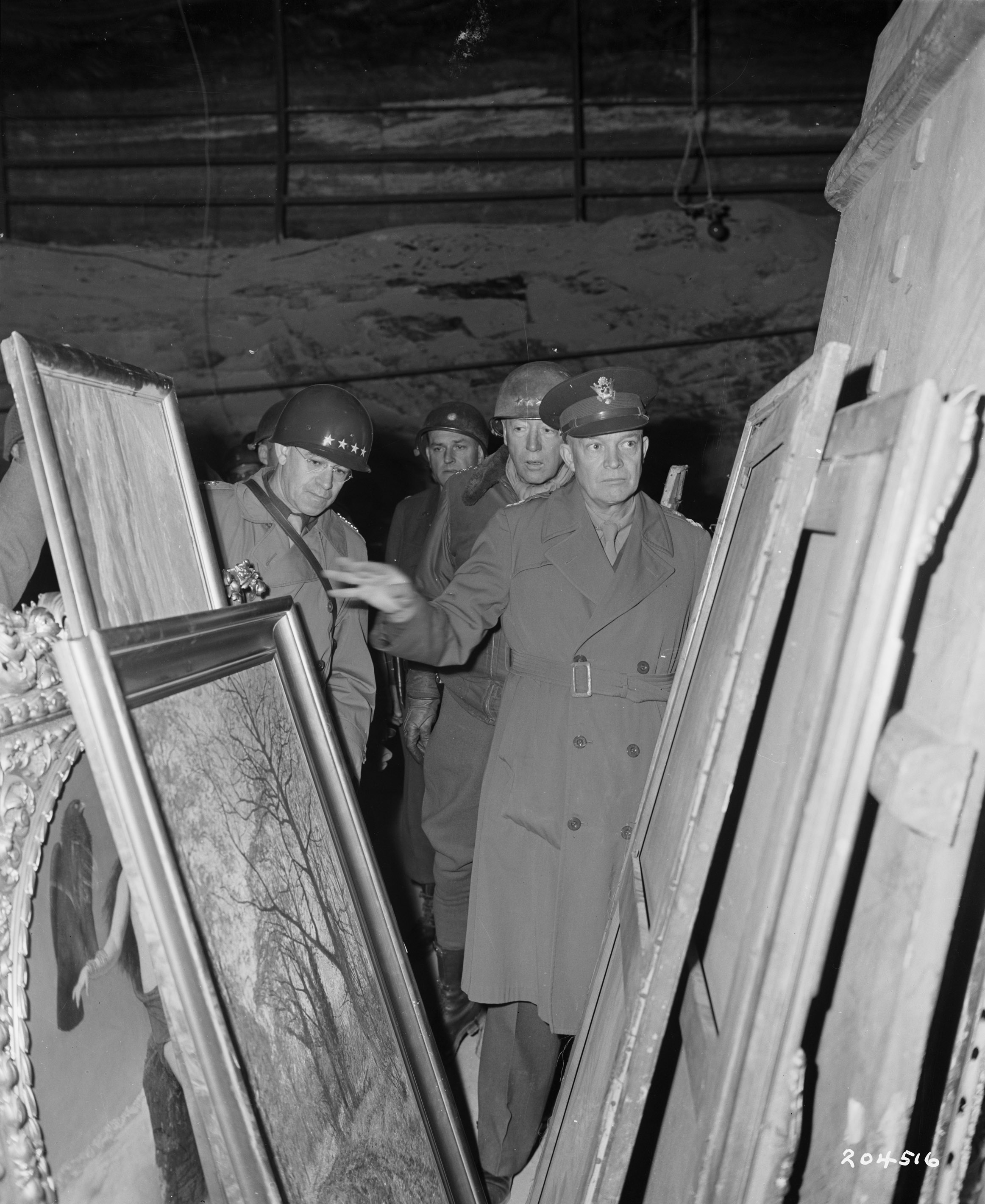 Gen. Dwight D. Eisenhower inspects stolen artwork in the Merkers salt mines. Behind Eisenhower are General Omar N. Bradley (left), CG of the 12th Army Group, and (right) LT Gen George S. Patton, Jr, CG, 3rd U.S. Army.